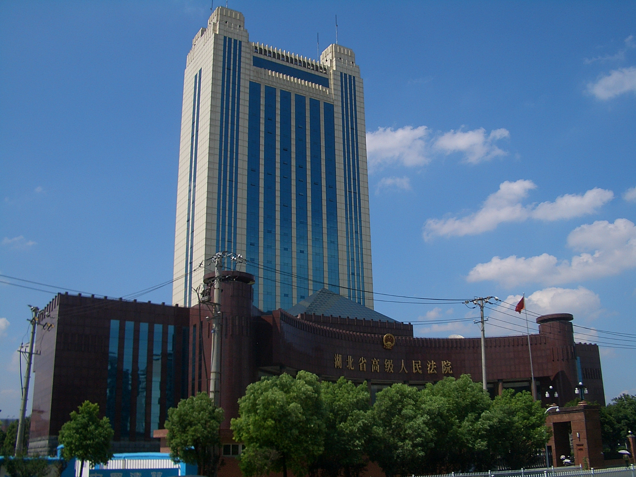 The Supreme Court of Hubei Province. The building is in Gongzheng Lu, a couple km north of central Wuchang